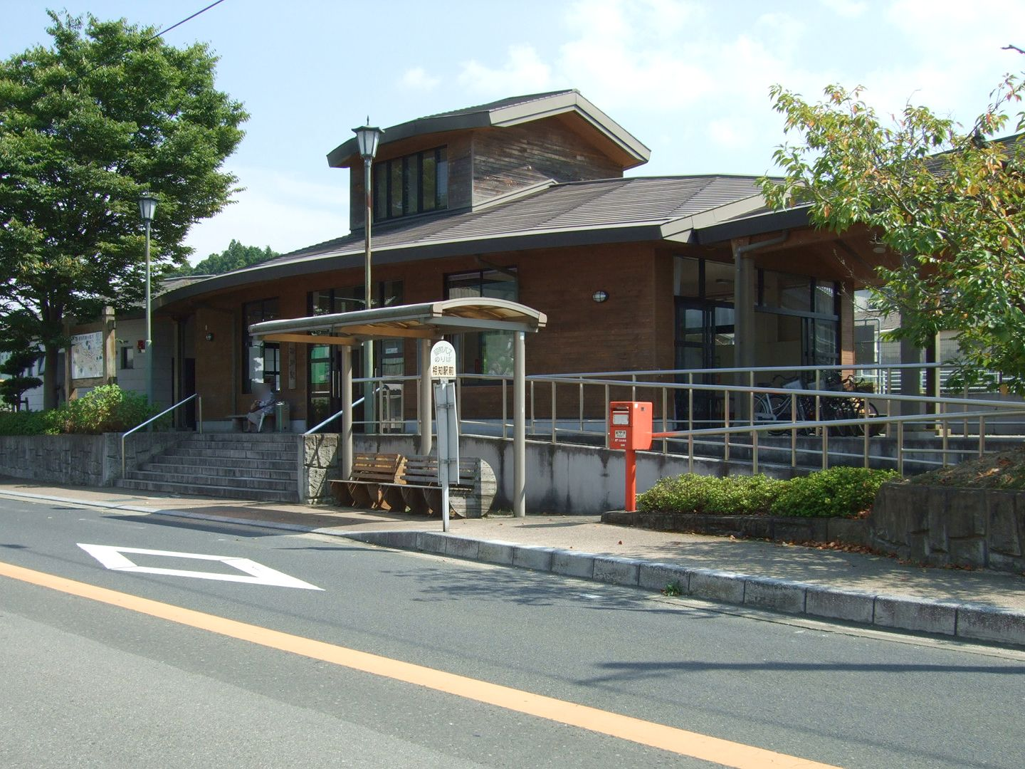 Ouchi Station, Karatsu Line, JR Kyushu.